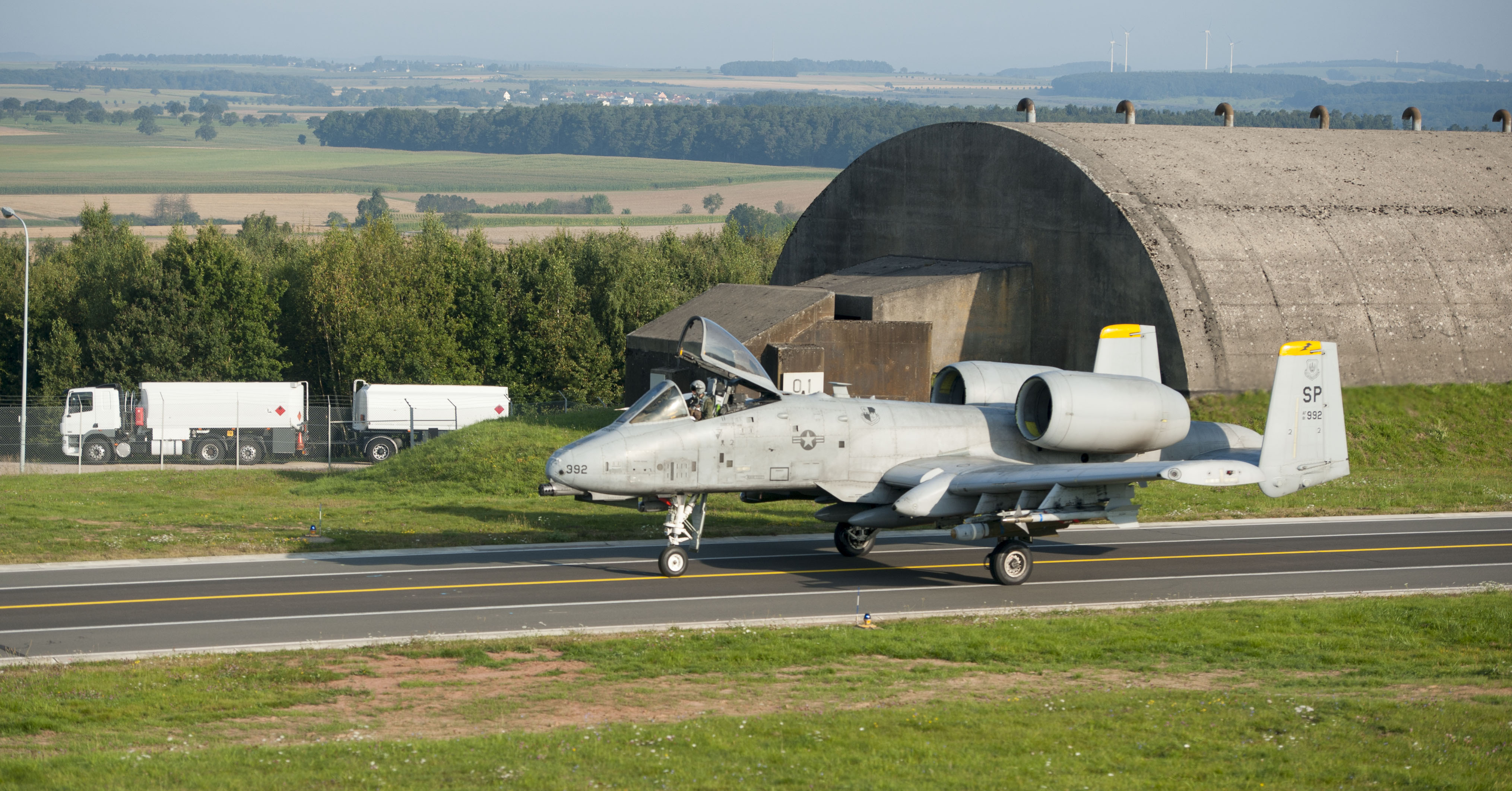 A U.S. Air Force A-10 Thunderbolt II aircraft with the 81st Fighter Squadron taxis to the runway Sept. 4, 2012, at Spangdahlem Air Base, Germany. The squadron’s Airmen and aircraft were bound for Namest Air Base in the Czech Republic to participate in Ramstein Rover 2012. Ramstein Rover trains U.S. Air Force and NATO tactical Air-Land-Integration elements and other air and ground parties in a realistic environment for operations in Afghanistan.